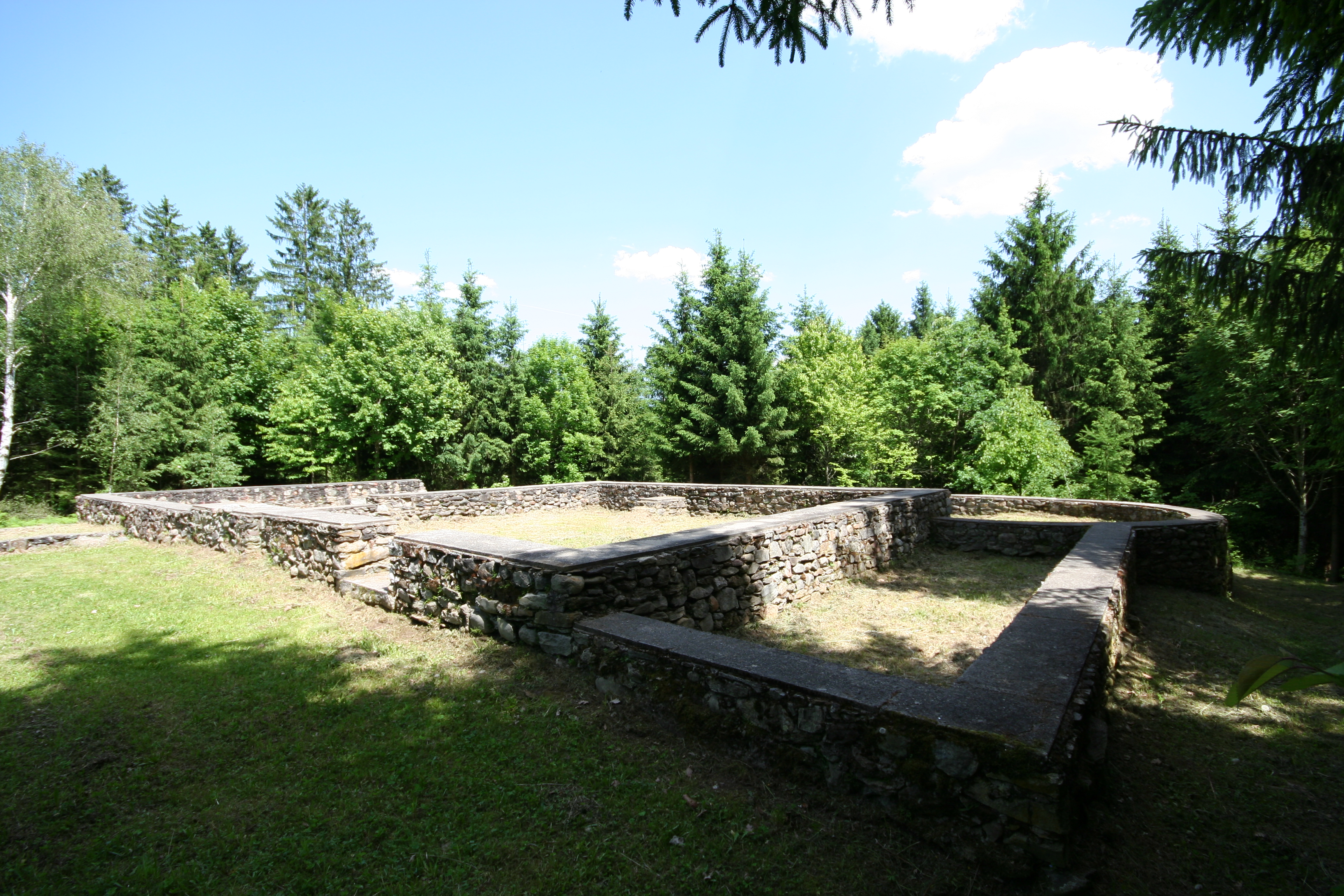 Ruins of a Roman Villa in Teurnia, Sankt Peter im Holz, Lendorf District Spittal an der Drau, Austria